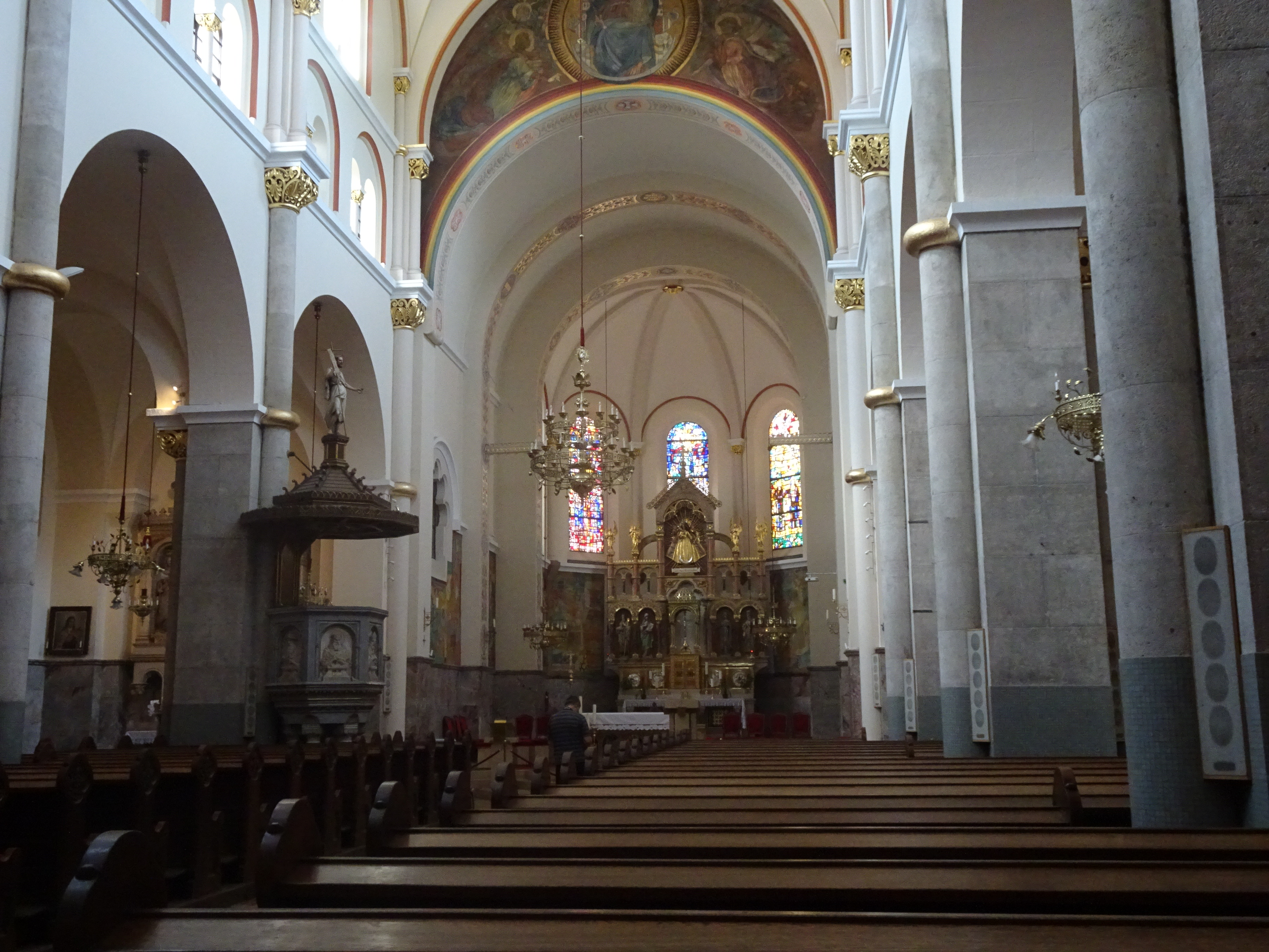 Interior of Basilica of Our Mother of Mercy, Maribor, Slovenia